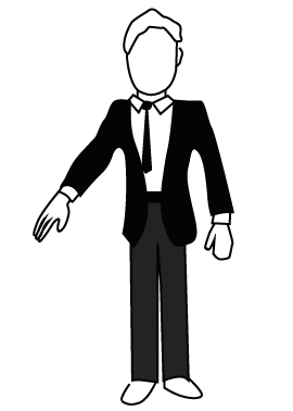 Referee gesture for Yuko